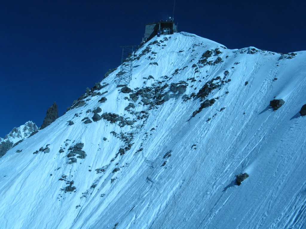 Punta Helbronner from italian side